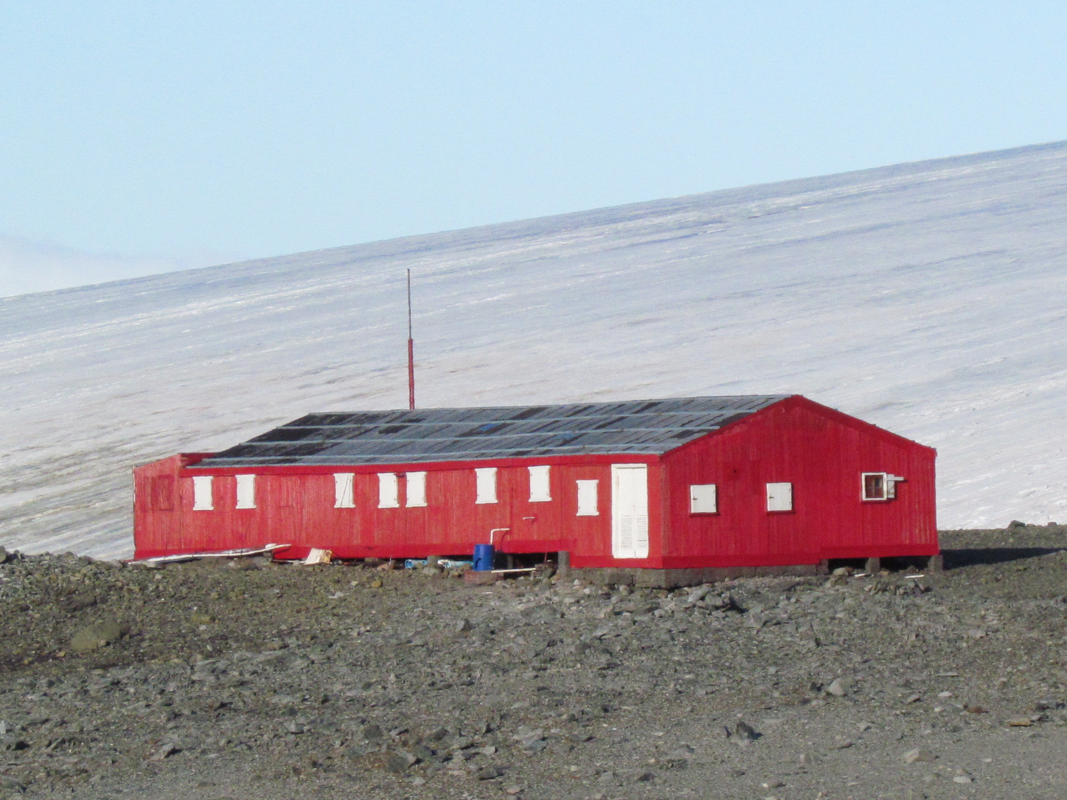 View of Ruperto Elichiribehety Antarctic Scientific Station